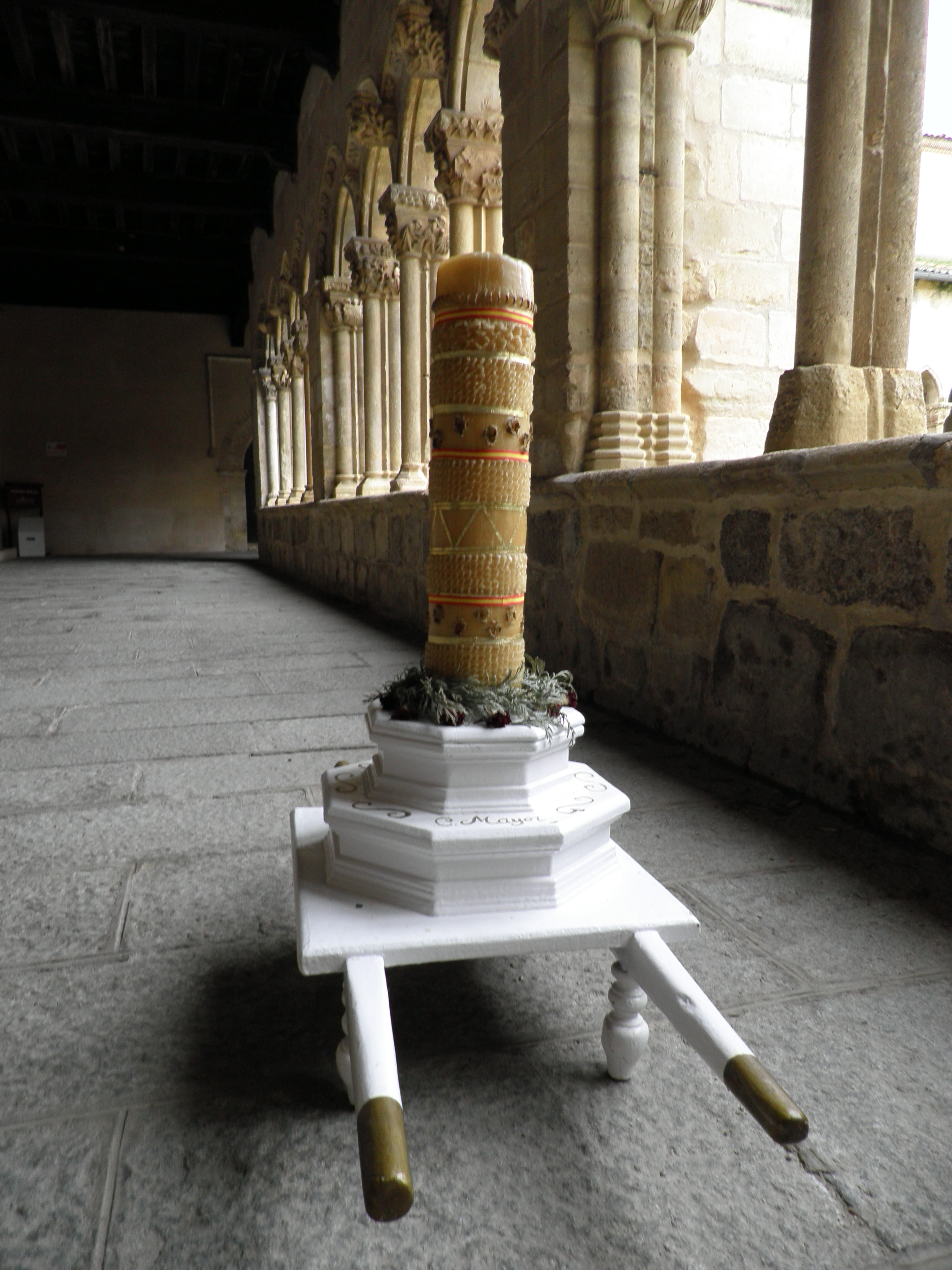 Tradicional decorated wax candle usually made as offering to Soterraña Virgin the first day of fair in her honour.